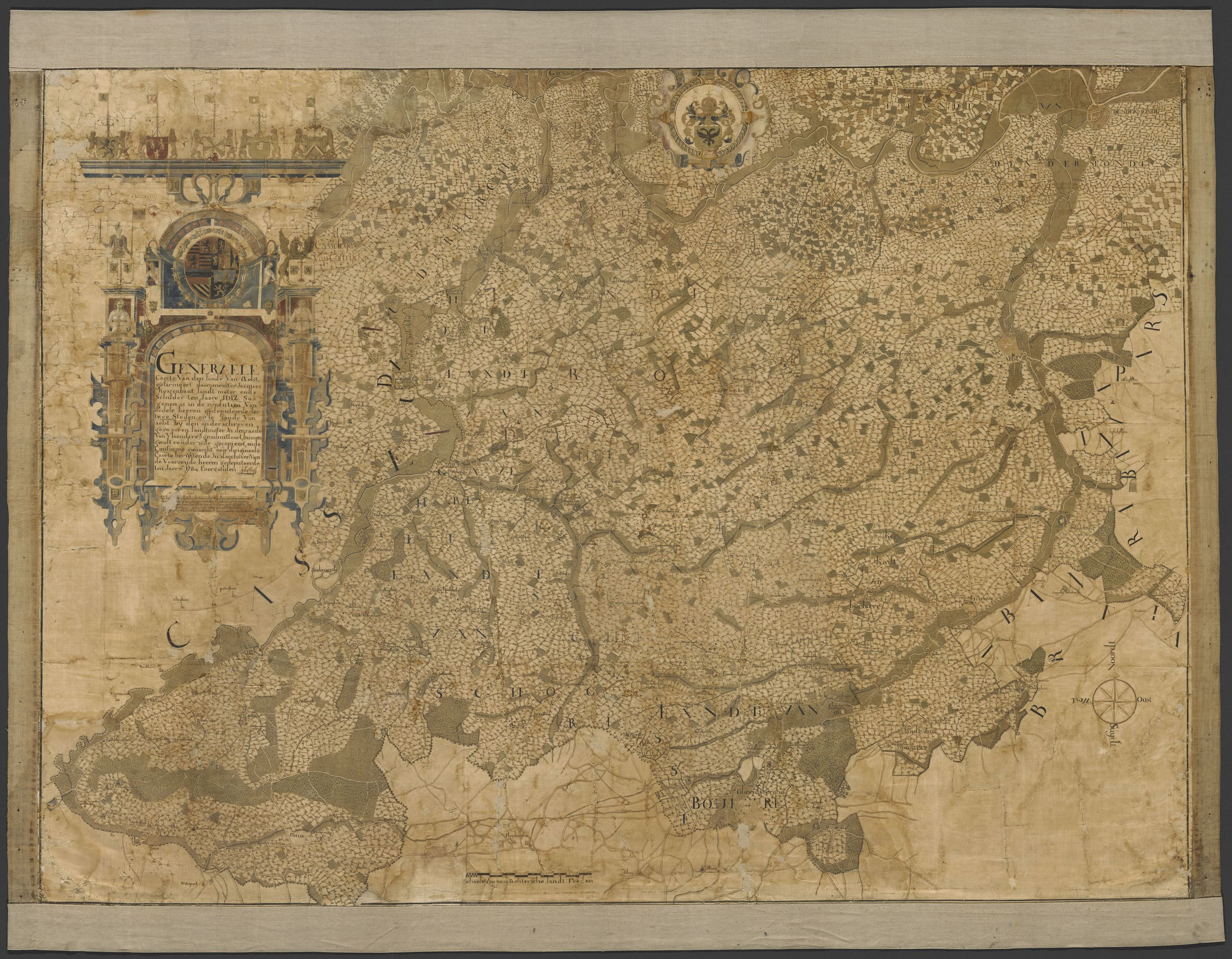 Land van Aalst, 1784, Leclerc